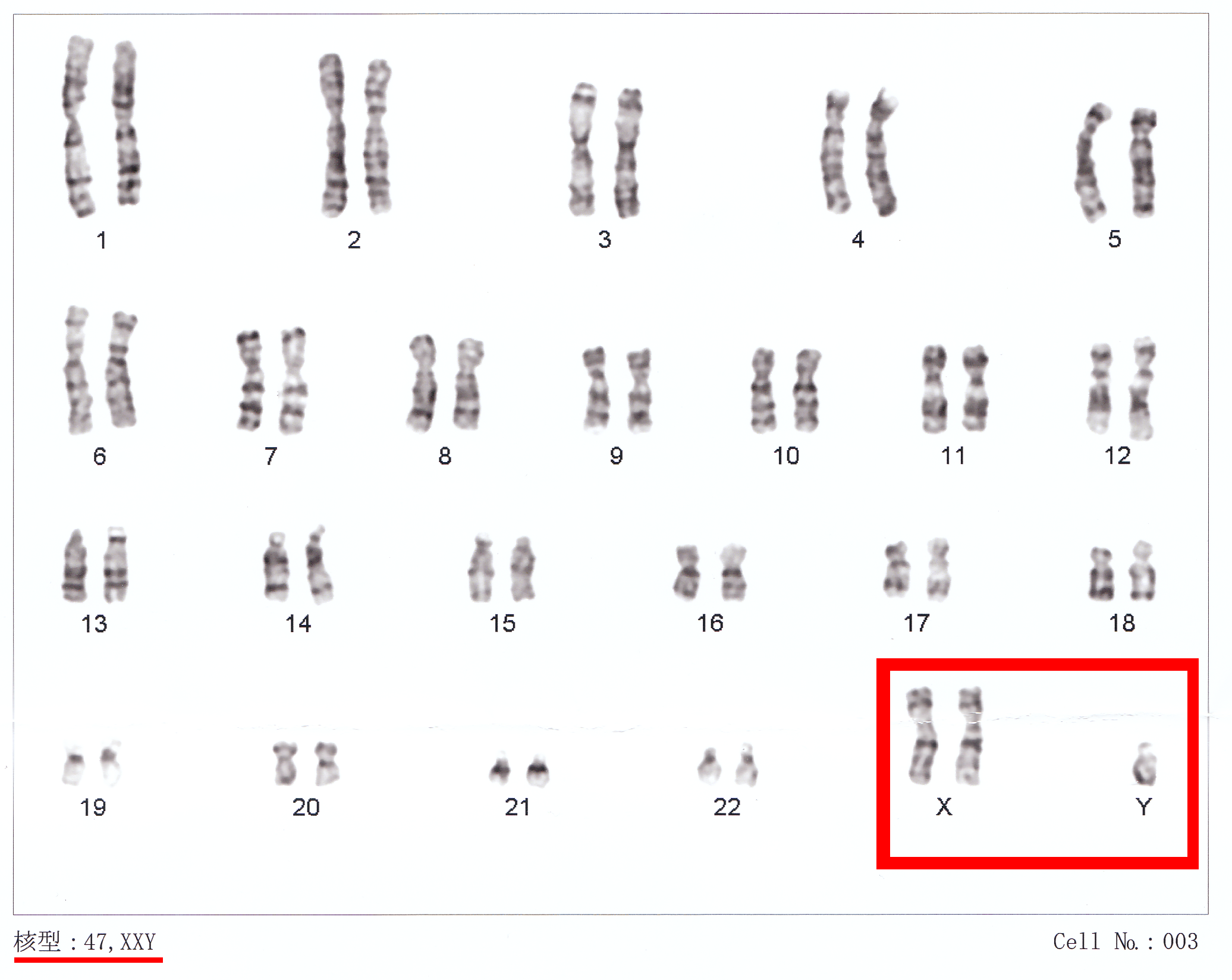 Human Chromosome type XXY